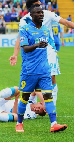 Guélor Kanga